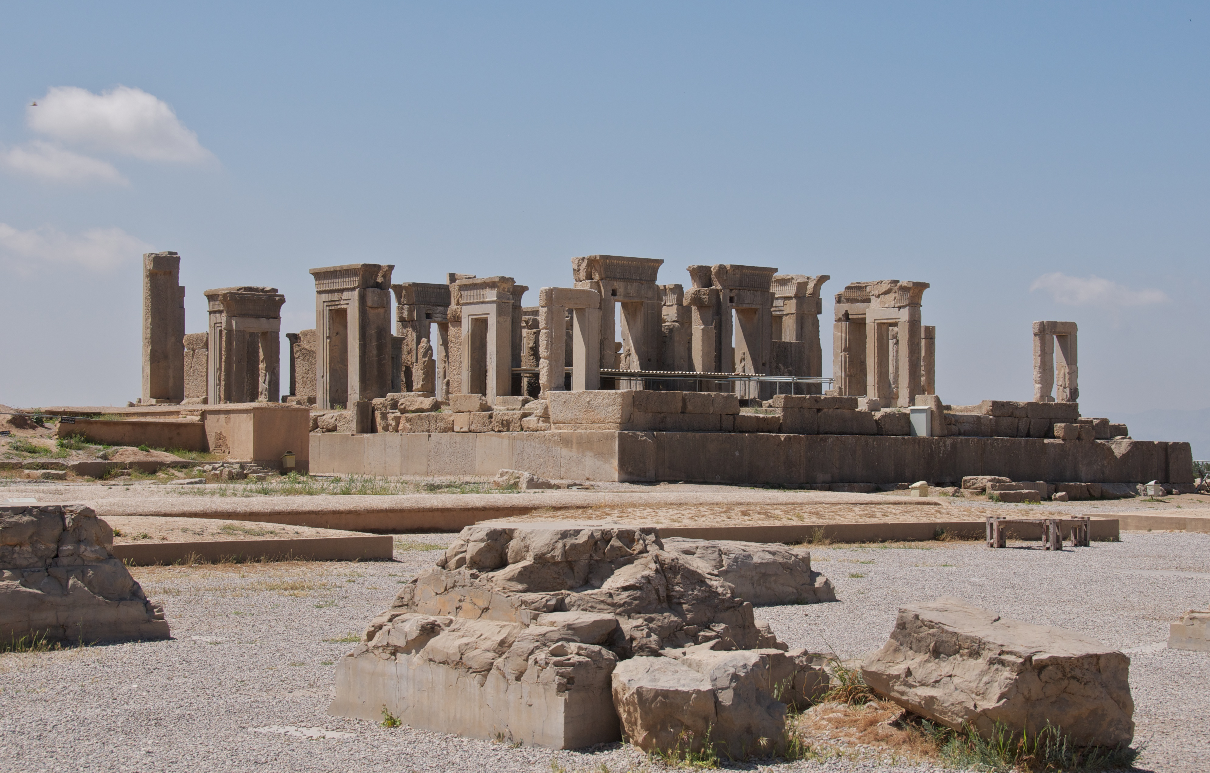 The Tachara Palace, Persepolis, Iran